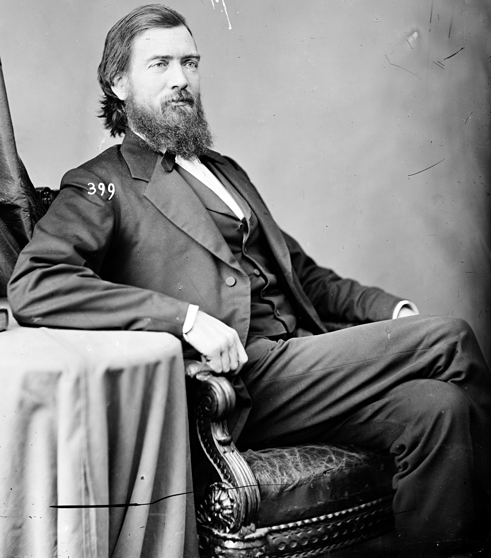 John T. Bird, US Representative from New Jersey